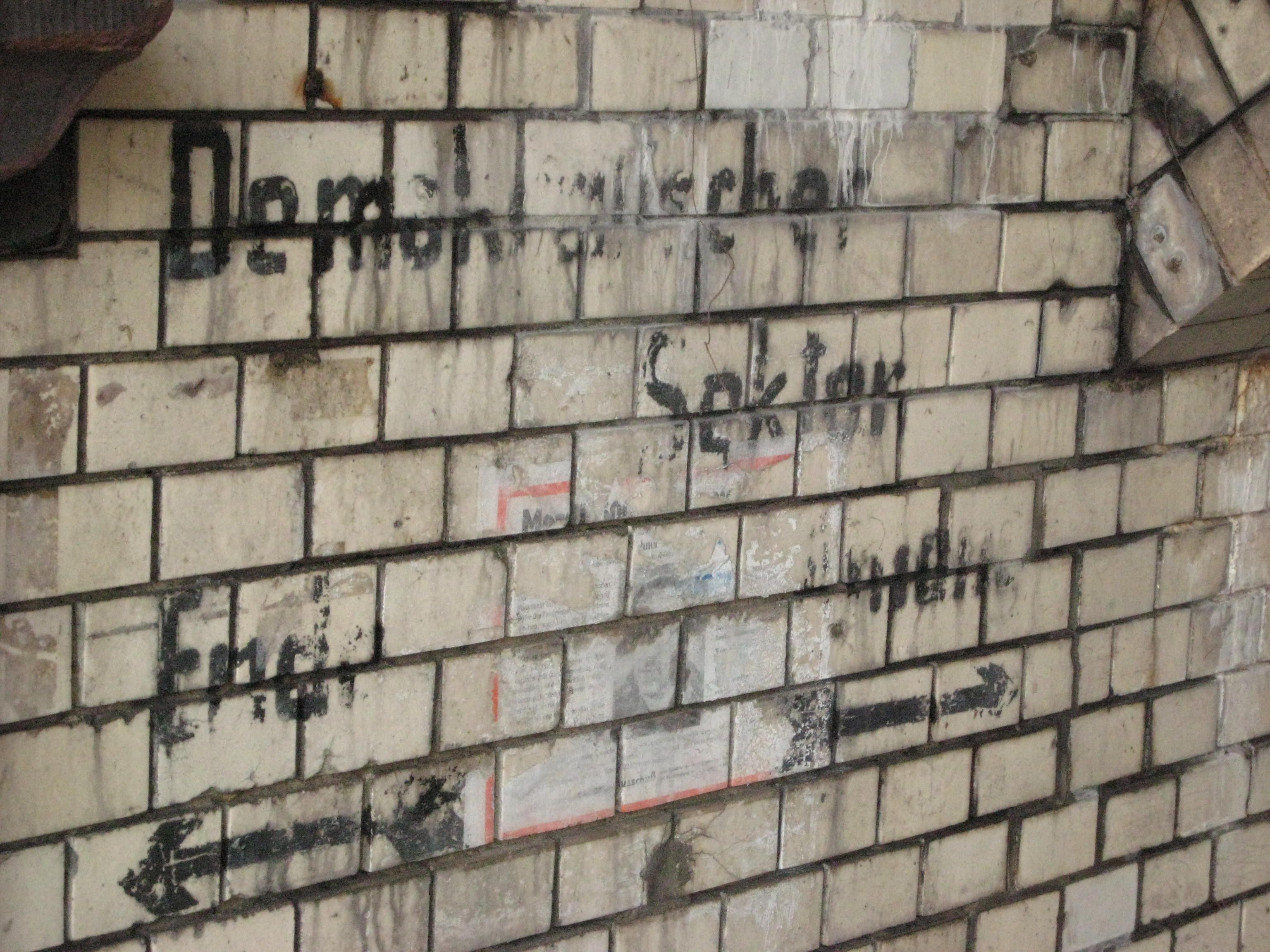 "Demokratischer Sektor " — old inscription marking the border of the "democratic [=soviet] sector" of Berlin in the post-war period; found at the entrance of "Stettiner Tunnel", a pedestrian tunnel closed since around 1958, Berlin-Mitte